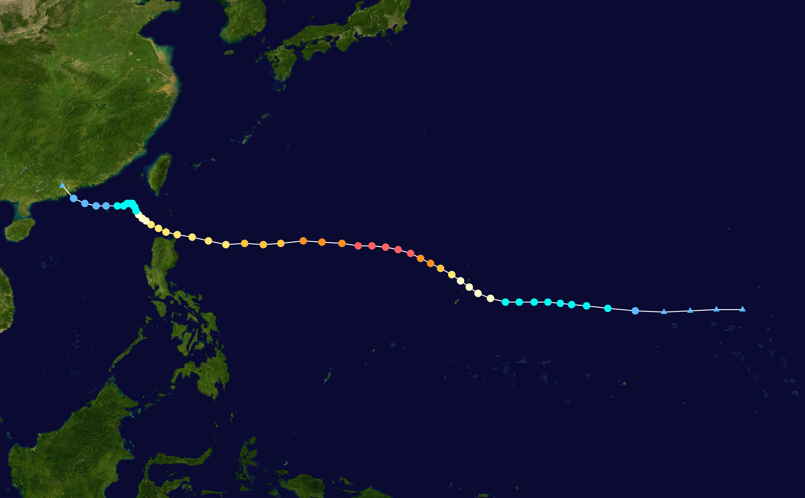 Typhoon Lynn 1987 track. Uses the color scheme from the Saffir-Simpson Hurricane Scale.